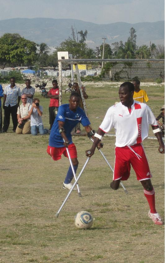 Team Zaryen player challenges another haitian amputee for the ball, Port-au-Prince